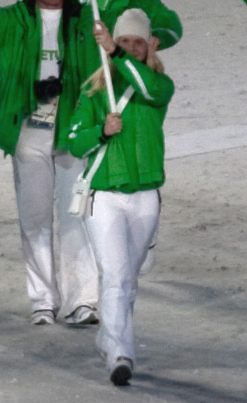 The athletes from Lithuania entering the stadium at the opening ceremonies of the 2010 Winter Olympics